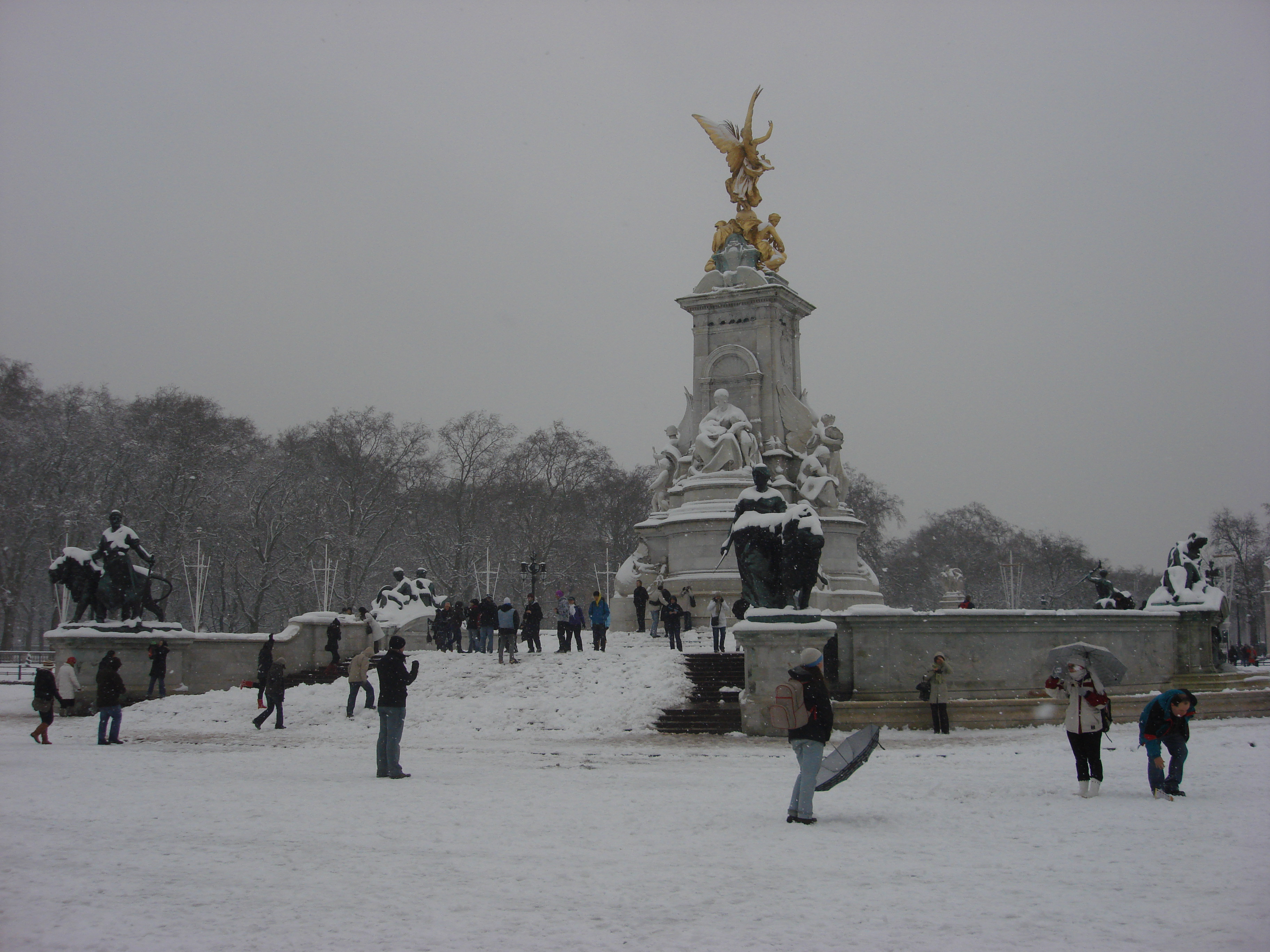 London in snow 2 February 2009